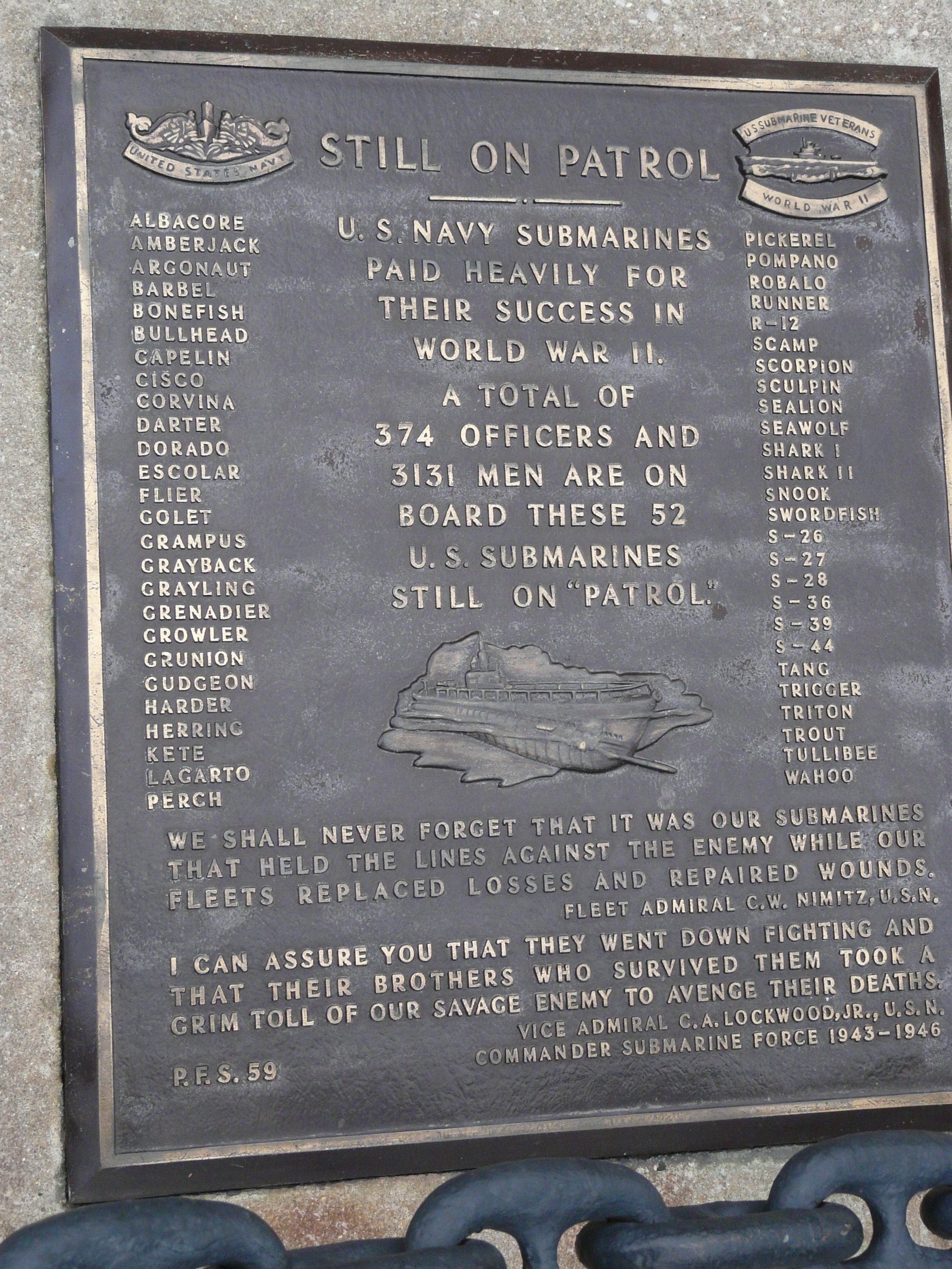 Memorial near USS Olymia and Becuna